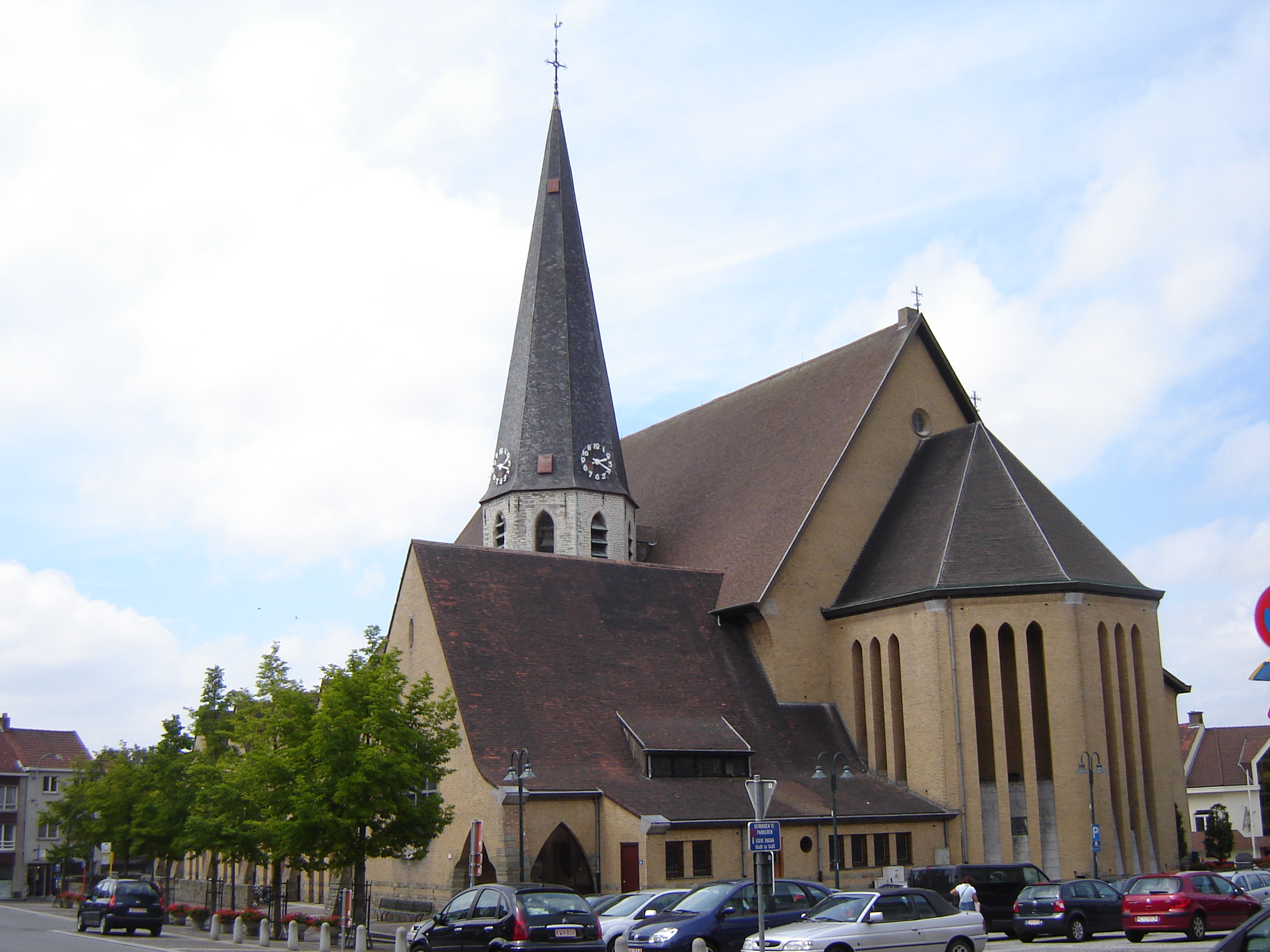 Church of Saint Amand in Zwevegem. Zwevegem, West Flanders, Belgium.